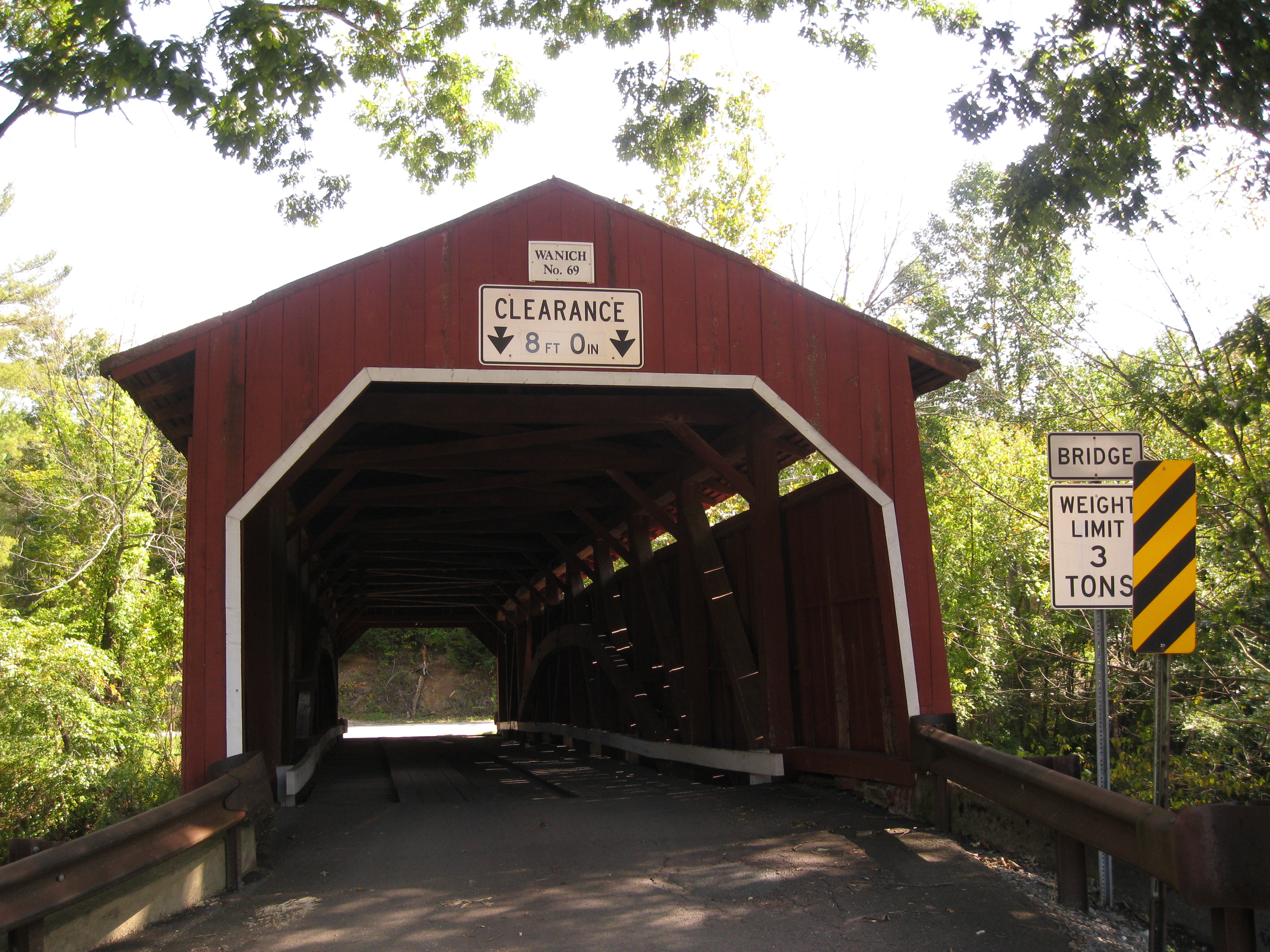 Wanich Covered Bridge No. 69 built in 1884 over Little Fishing Creek between Hemlock and Mount Pleasant Townships in Columbia County, Pennsylvania in the United States.